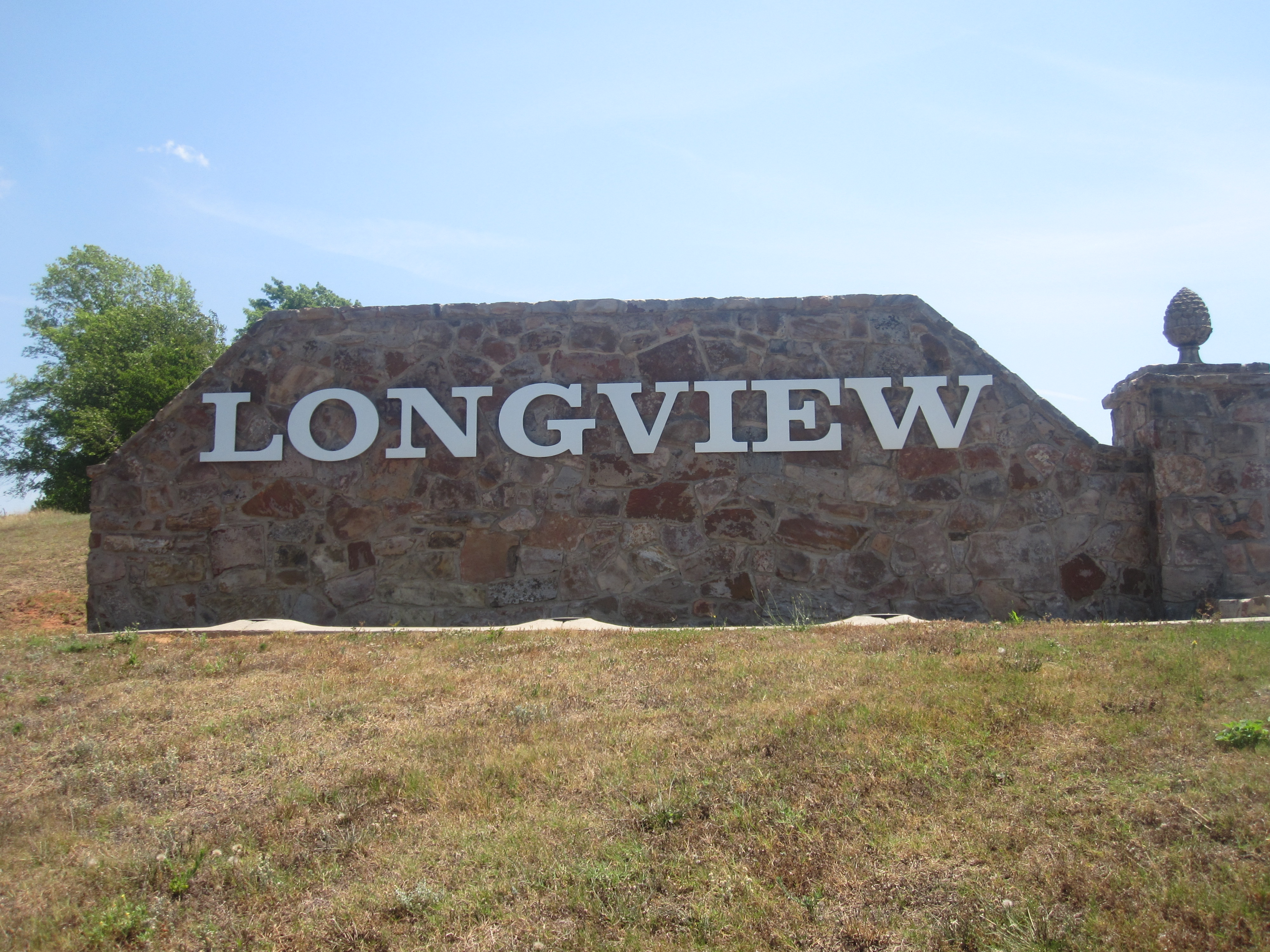 I took photo in Longview with Canon camera.